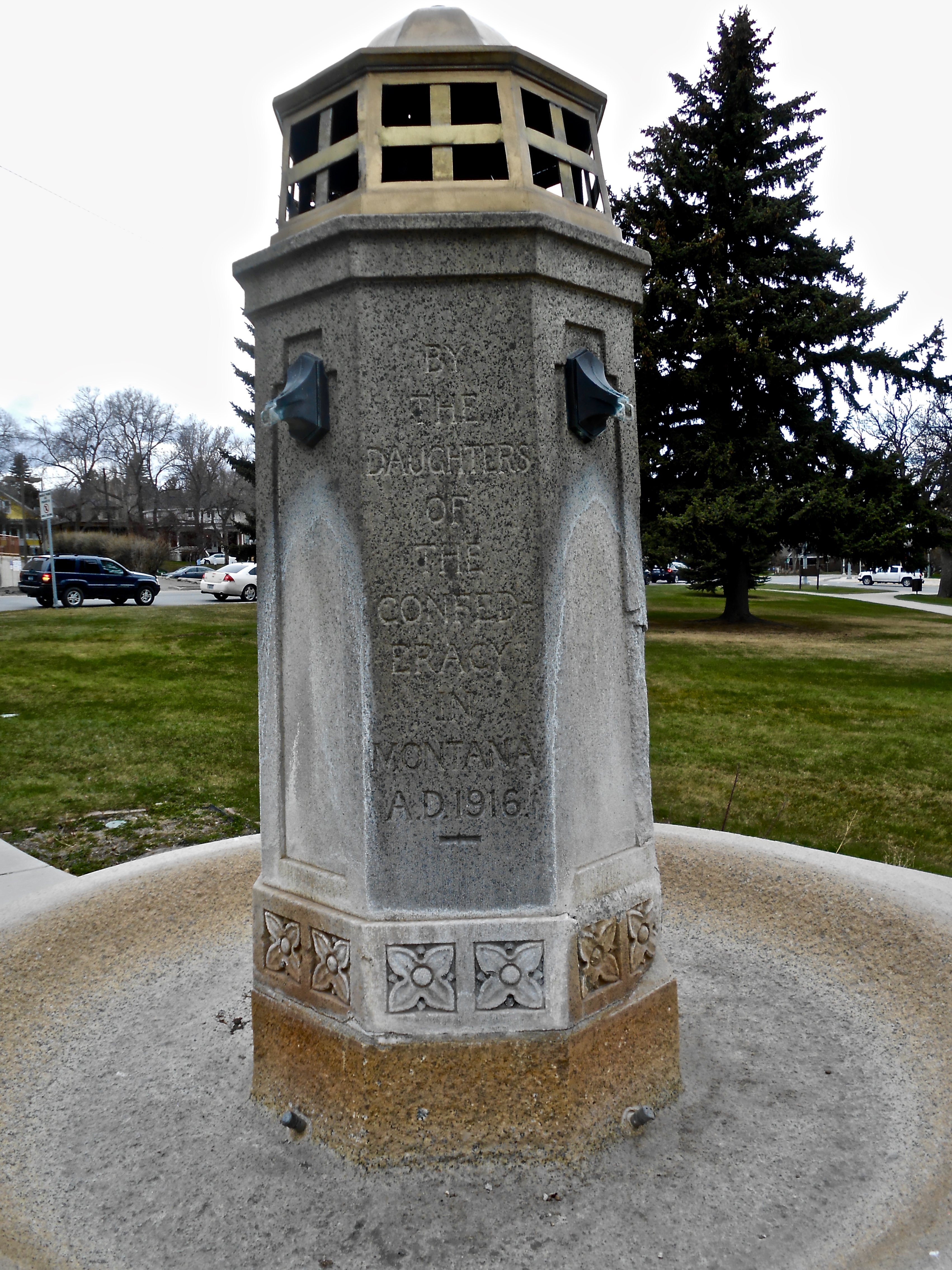 The Confederate Memorial Fountain in Helena, Montana is the only monument to the Confederacy in Northwestern United States and believed to be the northernmost such monument in the USA. It lies within the Helena Historic District and is near the Algeria Shrine Temple and the Helena branch of the Federal Reserve Bank of MInneapolis. Southeast face inscription reads "By the Daughters of the Confederacy In Montana A.D. 1916"